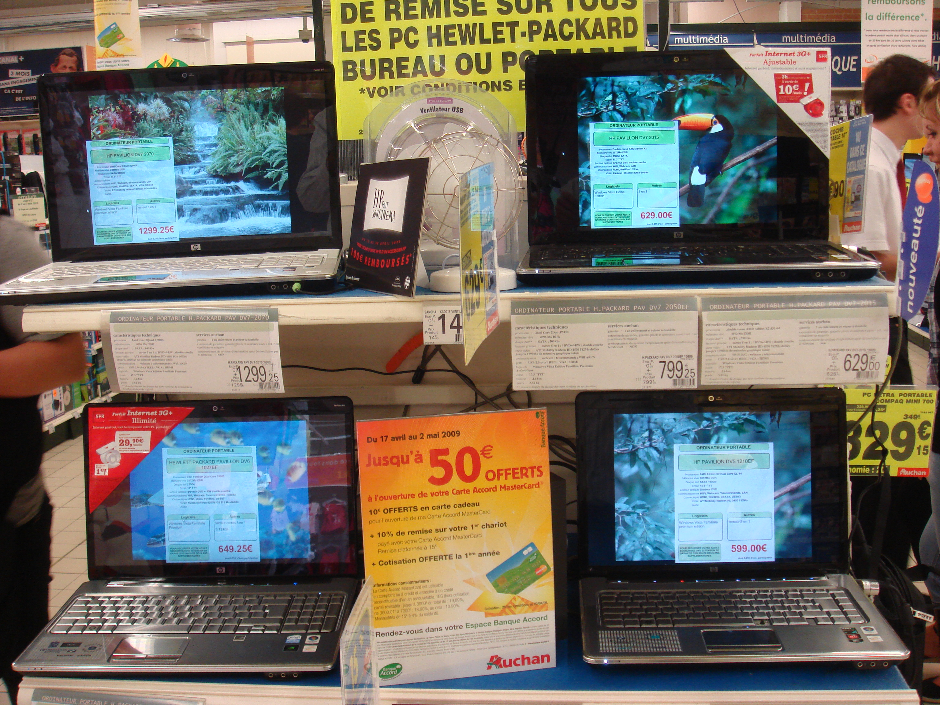 Numeric label display for laptop